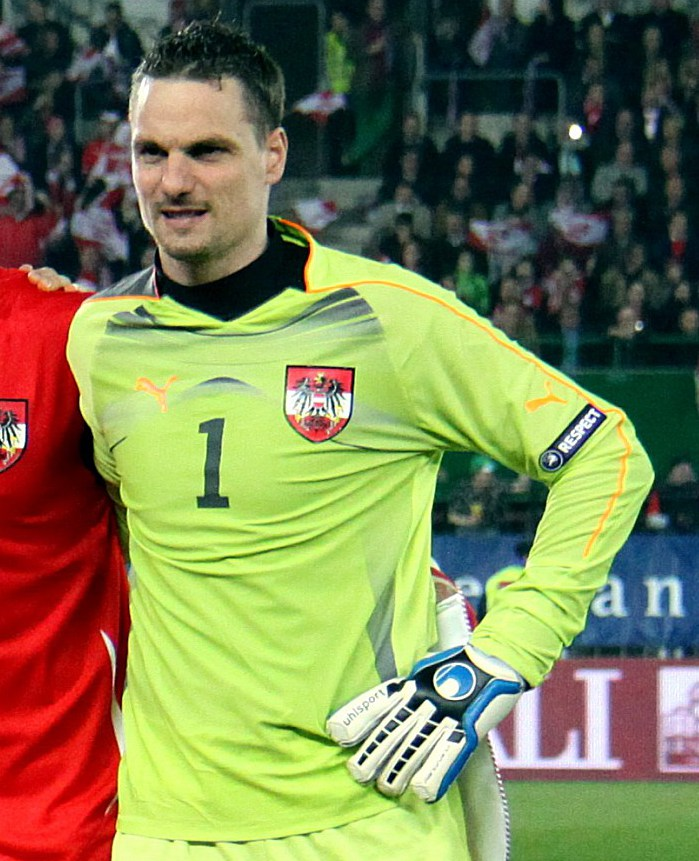 Austria national football team against Belgium (0:2), 2011-03-25 in Vienna (Ernst-Happel-Stadion